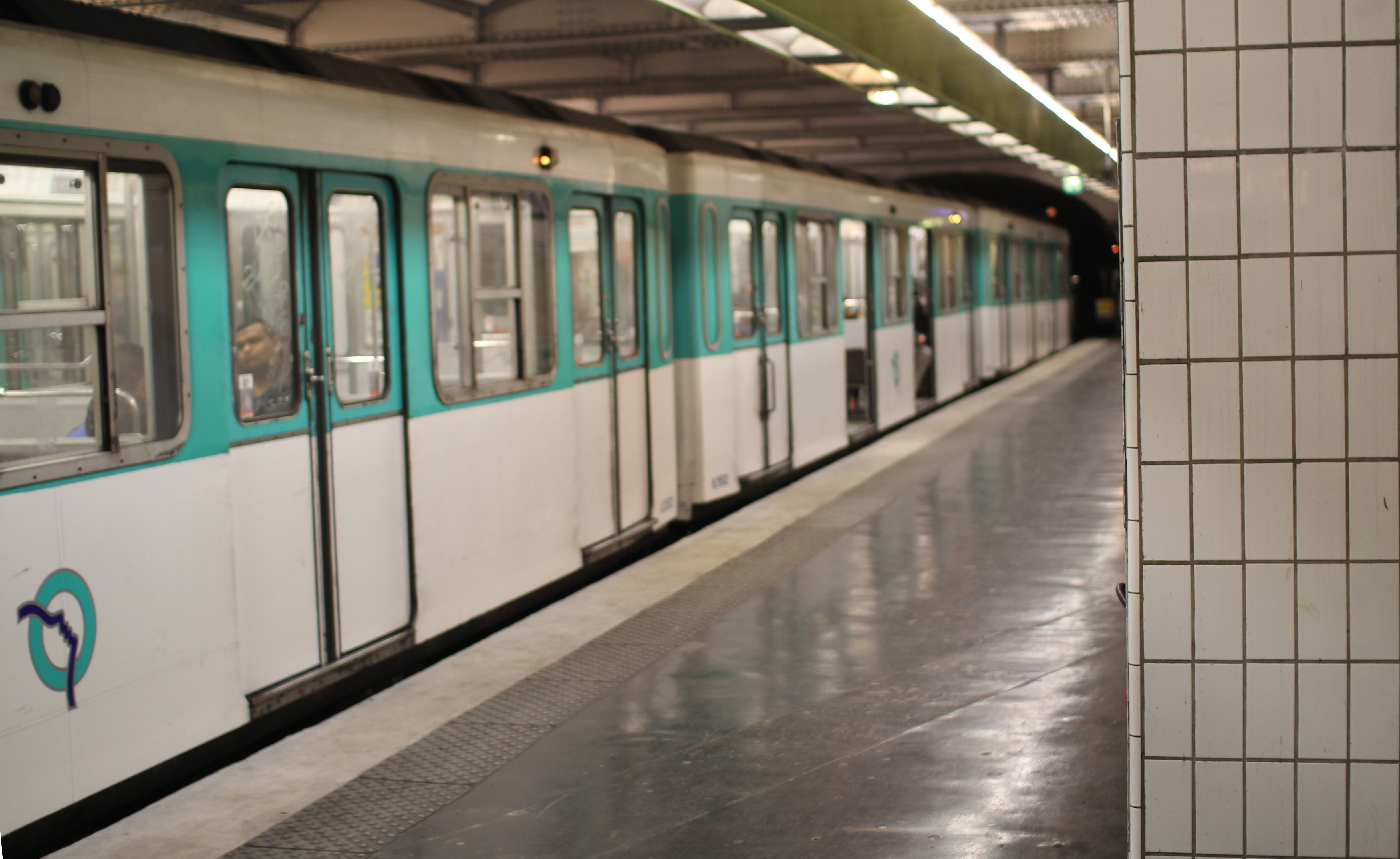 Metro station Richard Lenoir on Parisian metroline 5